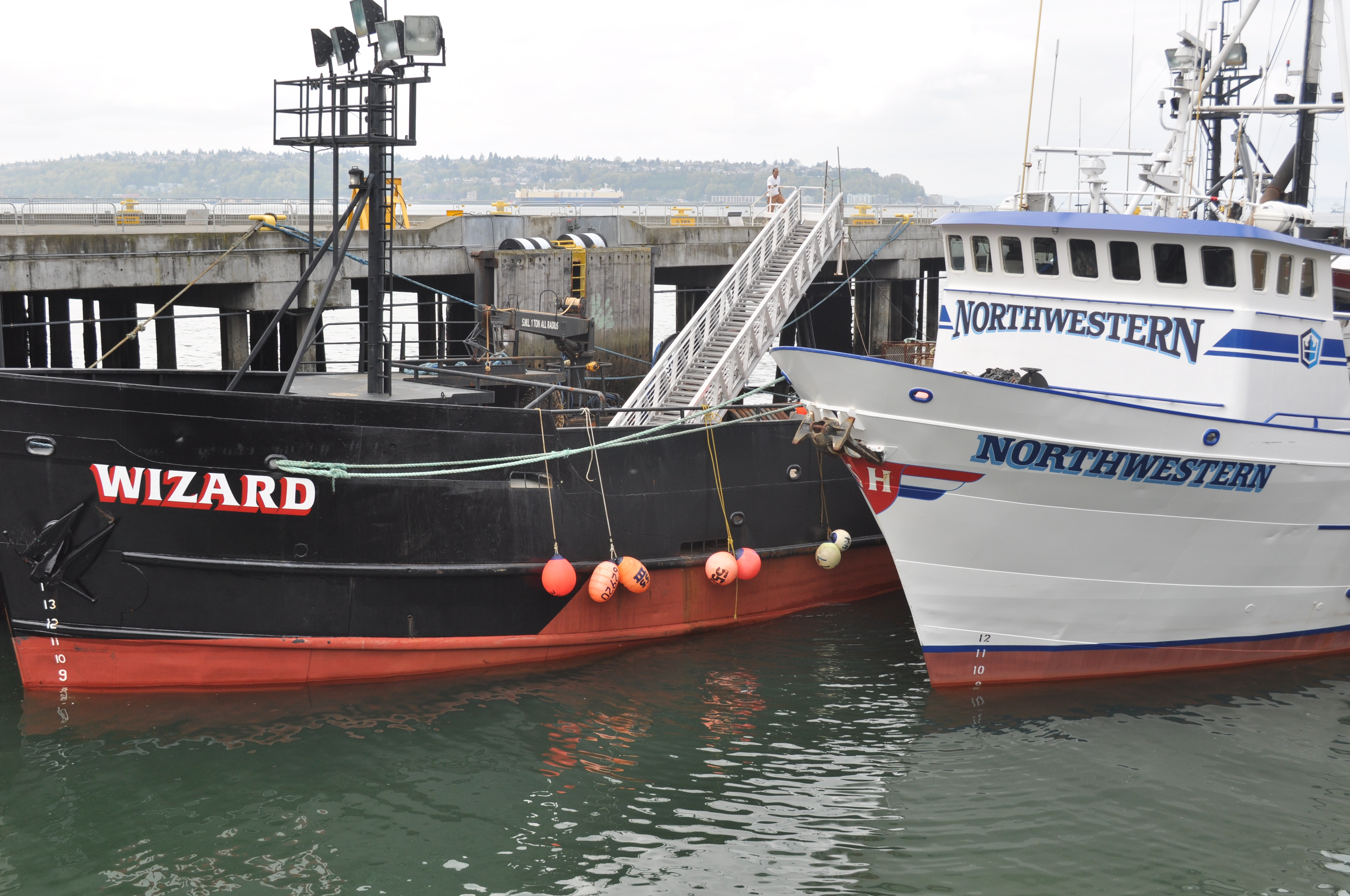 FV Wizard & FV Northwestern from Deadliest Catch Seattle